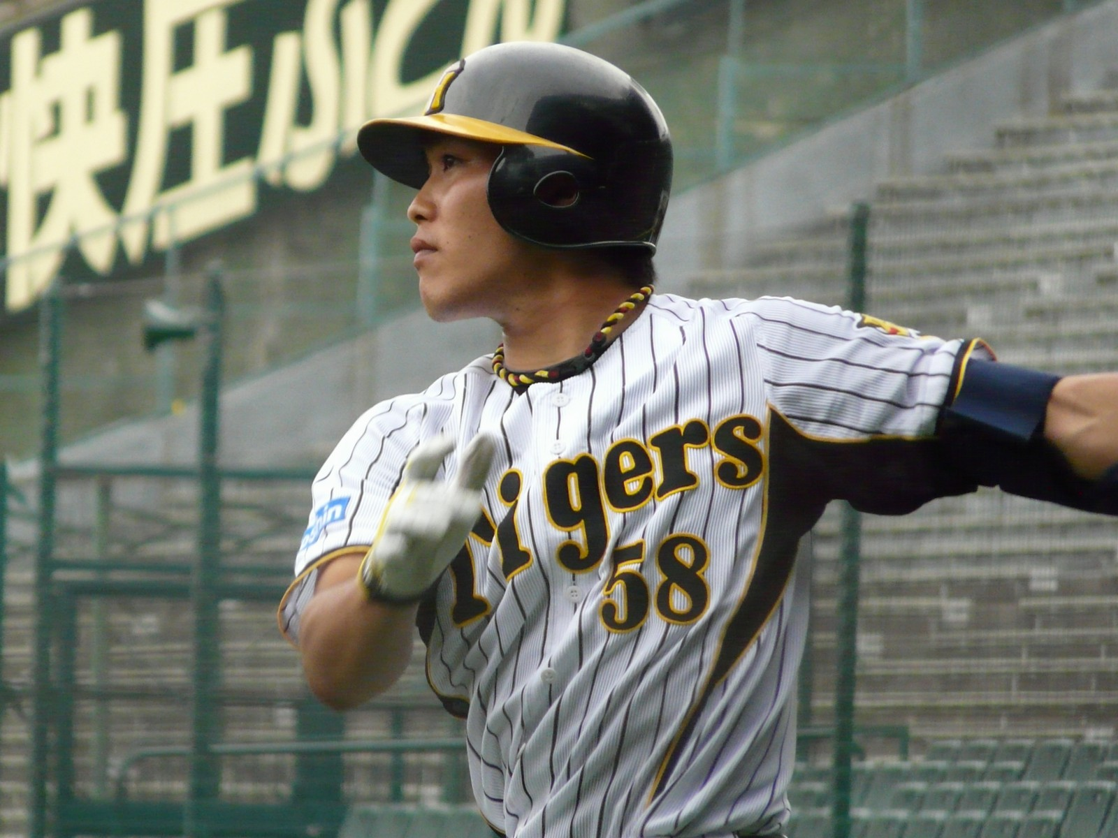 Yusuke Takahashi